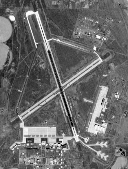 Grant County International Airport - Washington (State), 13 July 1996 Source: Mosaic of public images avaiable on Terraserver, United States Geological Survey digital orthophotos.